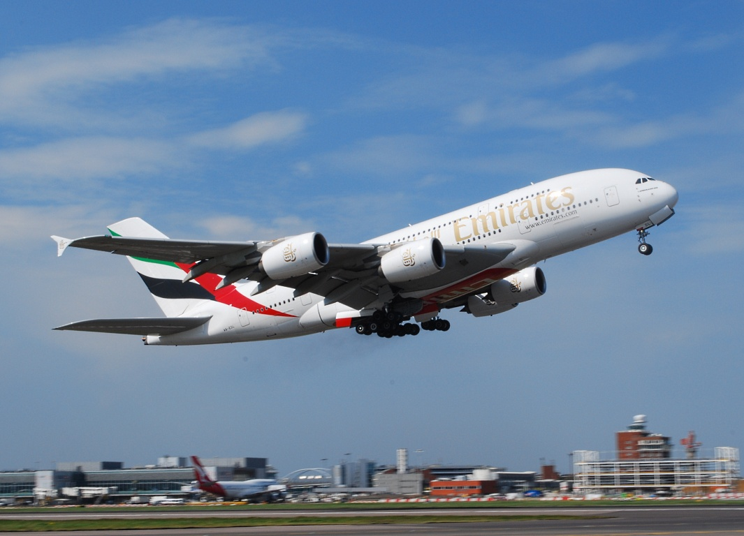 Airborne off 09right